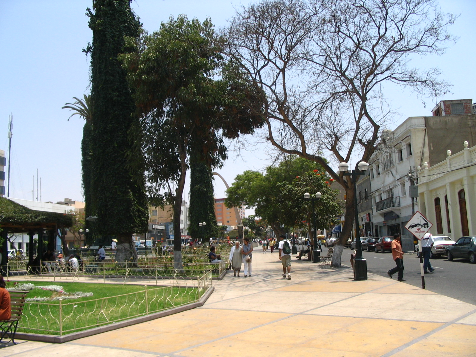 Taken by User:StarbucksFreak